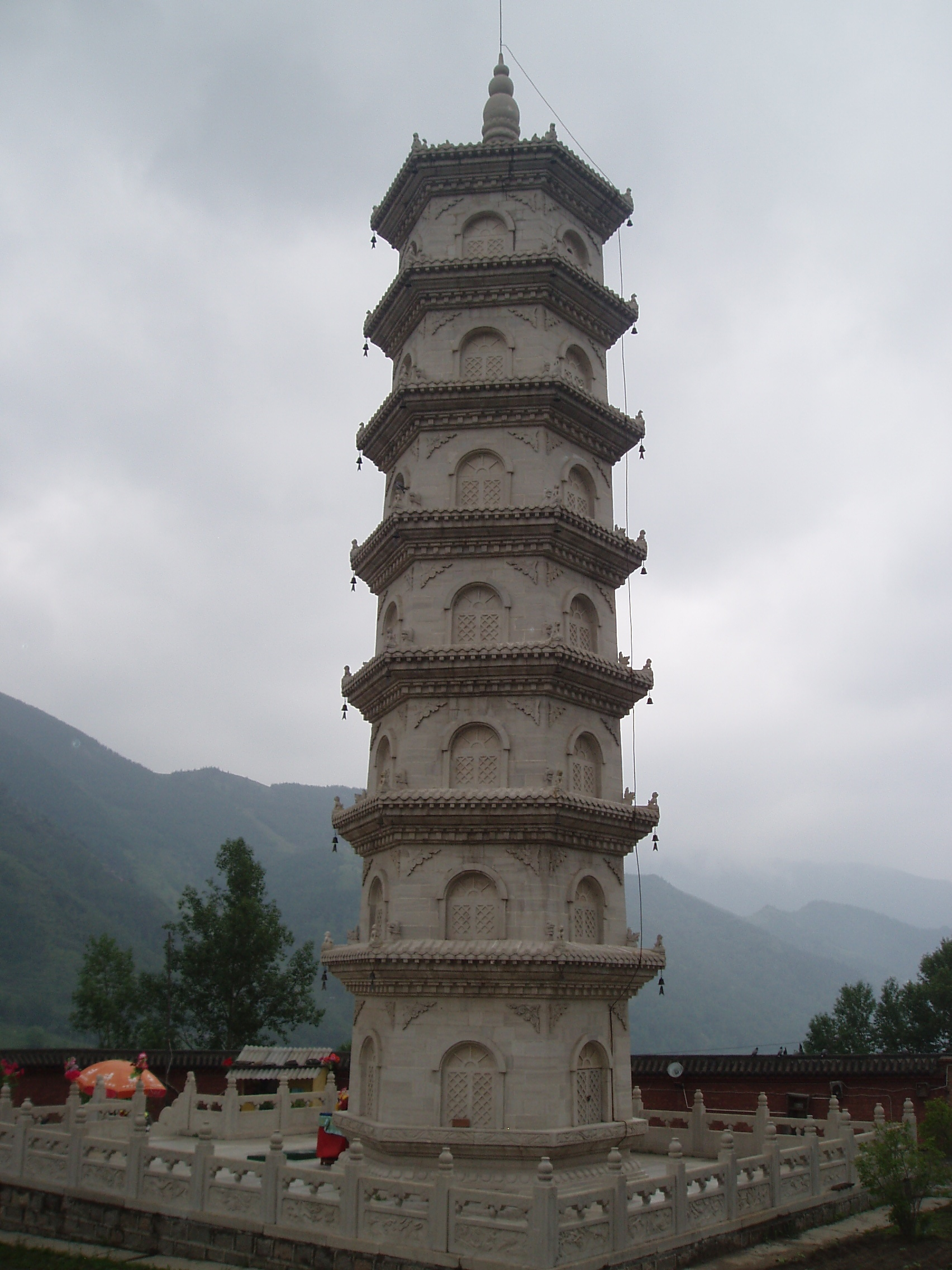 The pagoda at Qifo Temple in Wutaishan looking to the south. The Qifo Tower is 22 metres (72 ft) high and built of white marble. It is the highest white marble tower in Mount Wutai. The tower was hexagonal with seven stories. It is composed of a pagoda base, a sumeru throne and a dense-eave body. The base was engraved patterns of lotuses, flowers and grasses. Each story has a nich with small statues of Buddha are carved on the body of the tower, from top to bottom, they are statues of Vipassī Buddha, Sikhī Buddha, Vessabhū Buddha, Krakucchanda, Koṇāgamana Buddha, Kassapa Buddha and Sakyamuni.